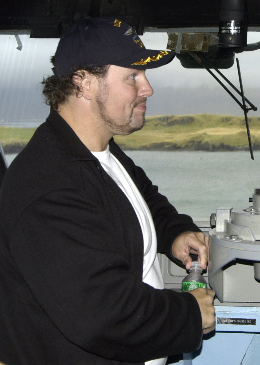 Reykjavik, Iceland. Magnus Ver Magnusson (Four Time World's Strongest Man) during his visit to the multipurpose amphibious assault ship.